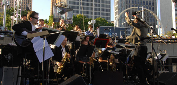 Wayne State University's Department of Music students perform at Jazz Fest in Detroit